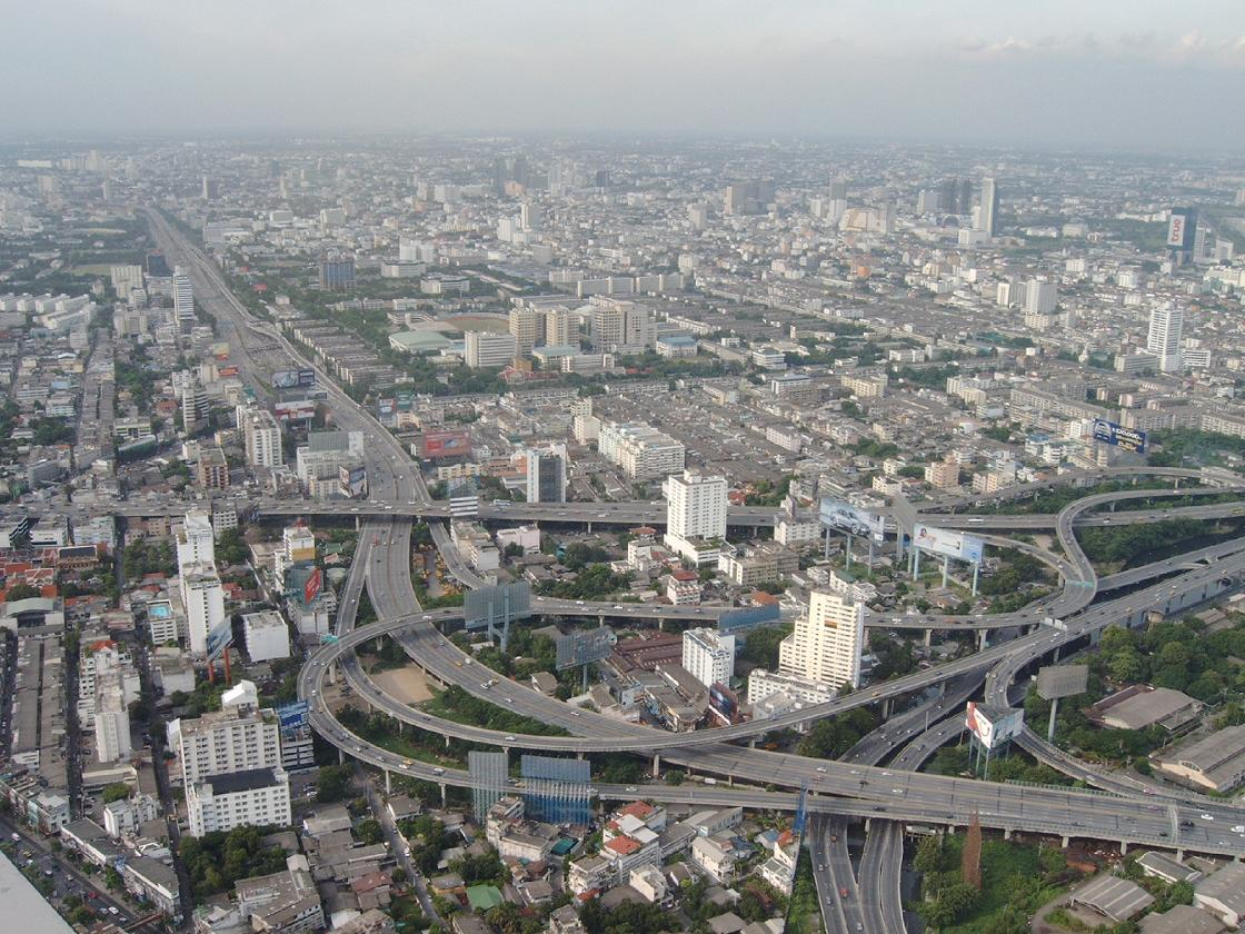 Observation deck view, Baiyoke Sky Hotel.